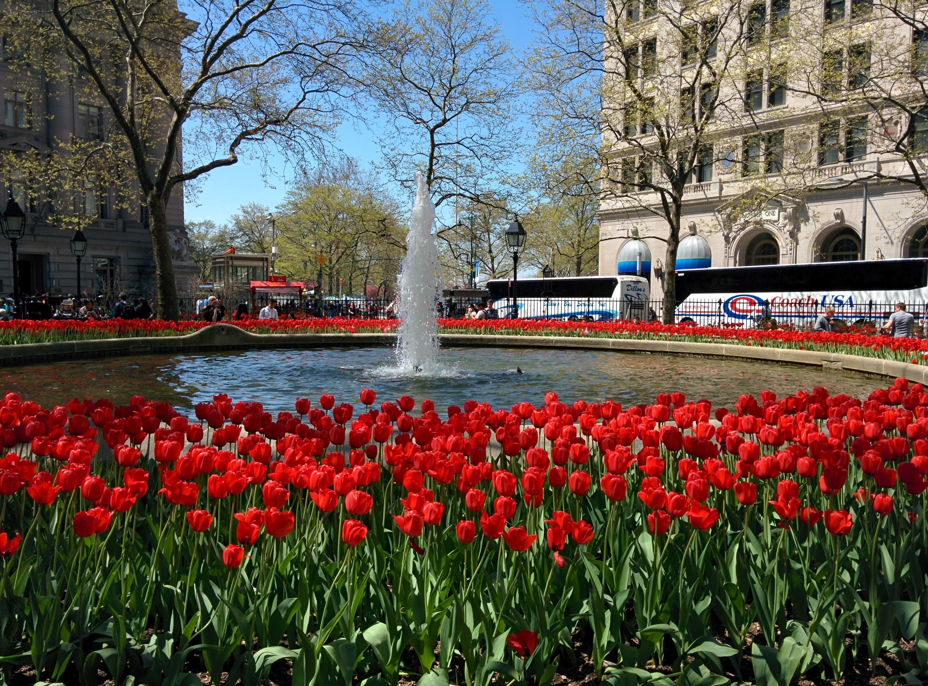 The fountain and surrounding flowers of Bowling Green, a small park in Lower Manhattan.